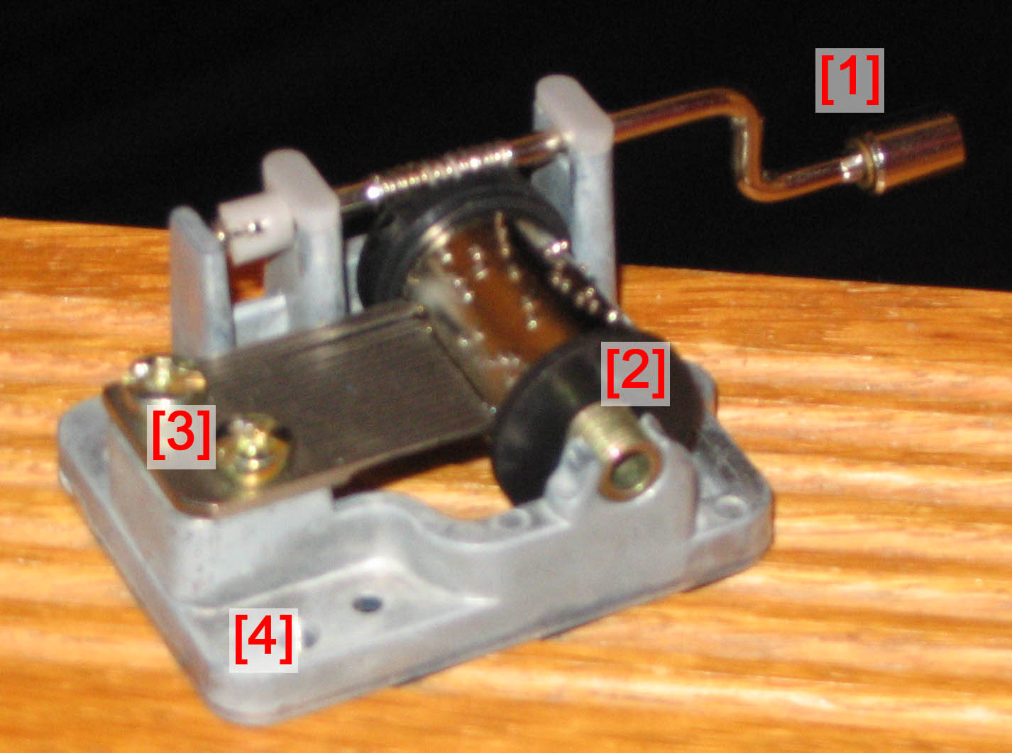 Kikkerland Brand music box. This brand does not wind up [and therefore has no spring motor], and requires the steady and constant rotating of the ratchet lever. I added the [numbers] myself in Adobe Photoshop. Sorry that it's a bit blurry.